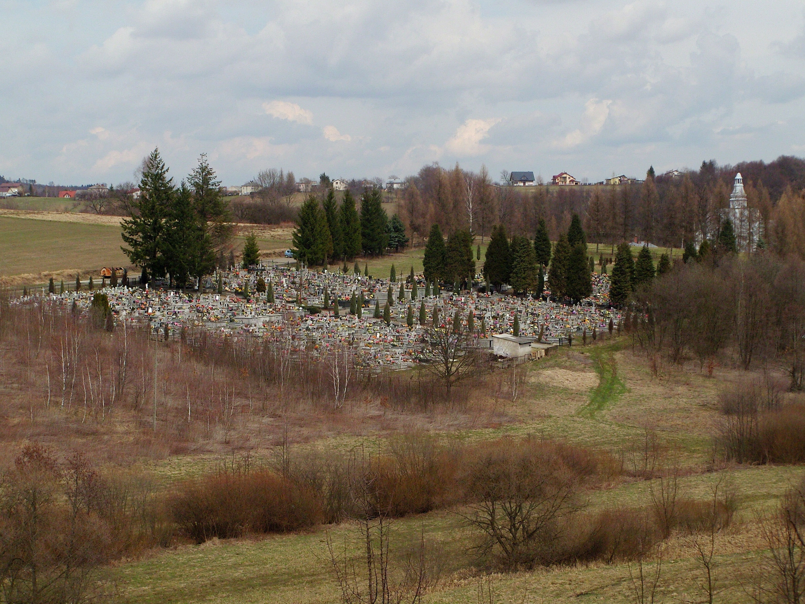 New Cemetery Bączal Dolny